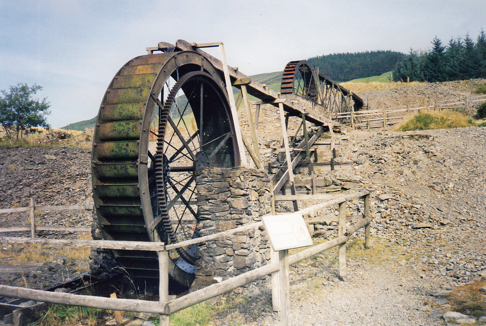 Llywernog Silver-Lead Mine Museum: waterwheels. The wheel closest to the camera was cast by the 'Woodward Cardigan Foundry' and is about 11ft in diameter, all iron overshot with attached ring gear. The further wheel was cast by cast by the Central Foundry, Aberystwyth in 1910 and is a high breastshot type.